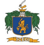 Coat of arms of Szegi, Hungary